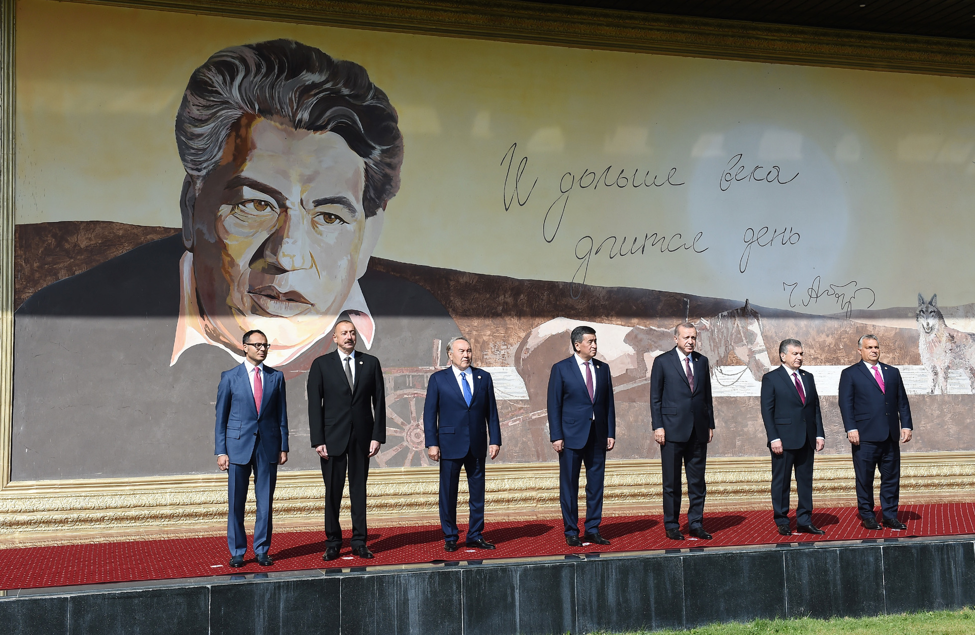 6th Summit of Cooperation Council of Turkic Speaking States kicks off in Cholpon-Ata